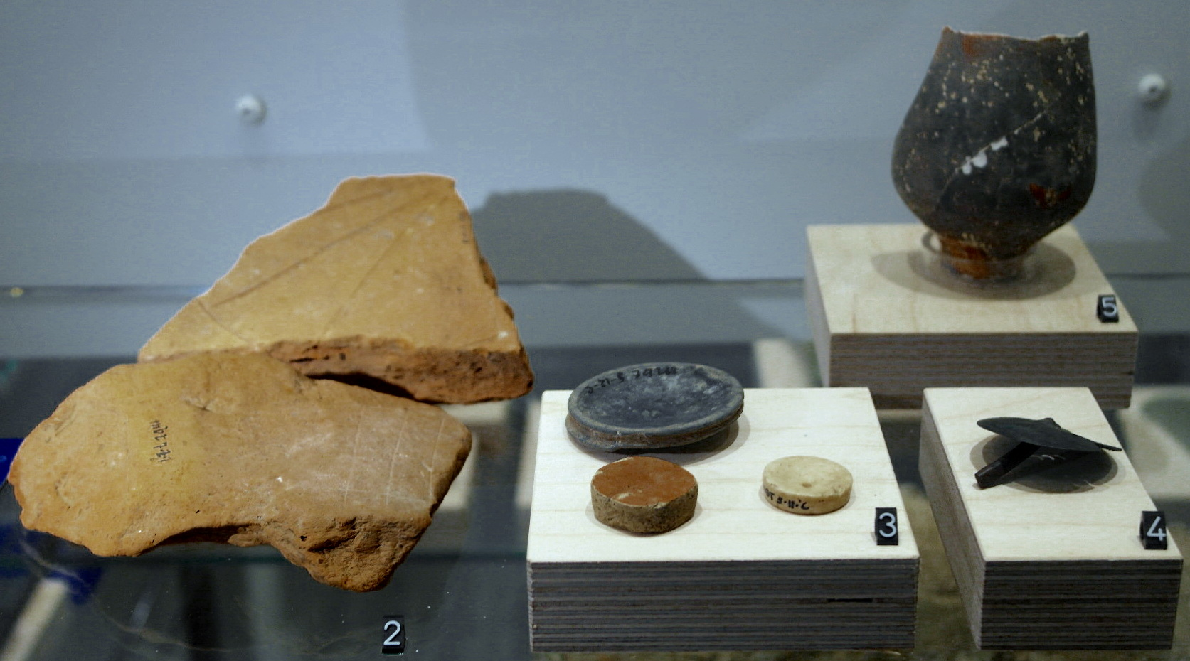 Ancient Roman toys and other artefacts, excavated at the Roman Villa Maasbracht, now in the archaeological collection of the Limburgs Museum in Venlo, the Netherlands.